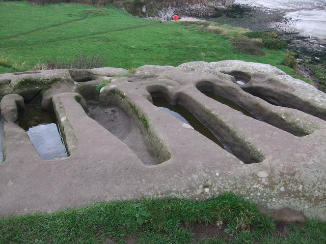 Photograph